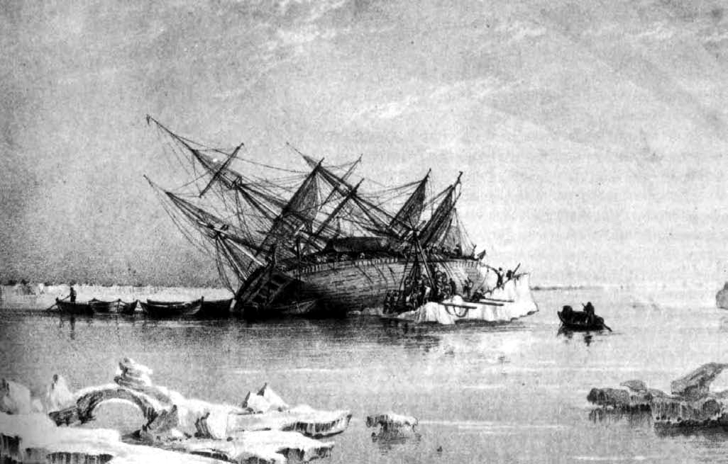 The HMS Terror on July, 14 1837. Engraving by George Back.